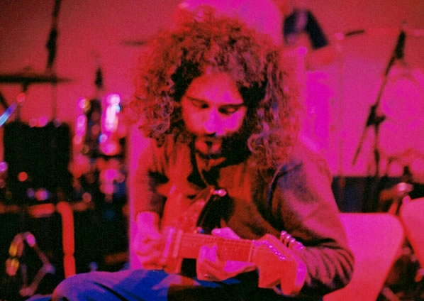 Godspeed You Black Emperor! performing live on London, England. November 2000 Photo by Justin Lynham.